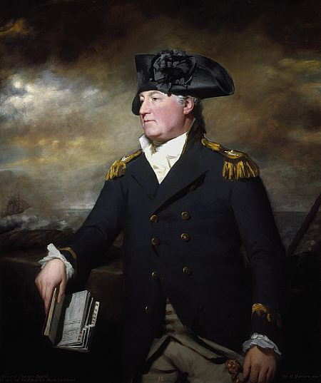 Rear-Admiral Charles Inglis, c 1731 - 1791. Originally painted in about 1783, this portrait showed Inglis wearing the full dress uniform of a captain with his right hand resting on a cannon. However, presumably at the request of a member of the Inglis family, around four years after the sitter’s death Raeburn repainted the portrait to show him in the dress uniform of a rear-admiral - including gold epaulettes which were only introduced in 1795.